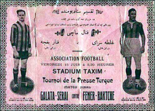 Galatasaray-Fenerbahçe match ticket (15 June 1923)